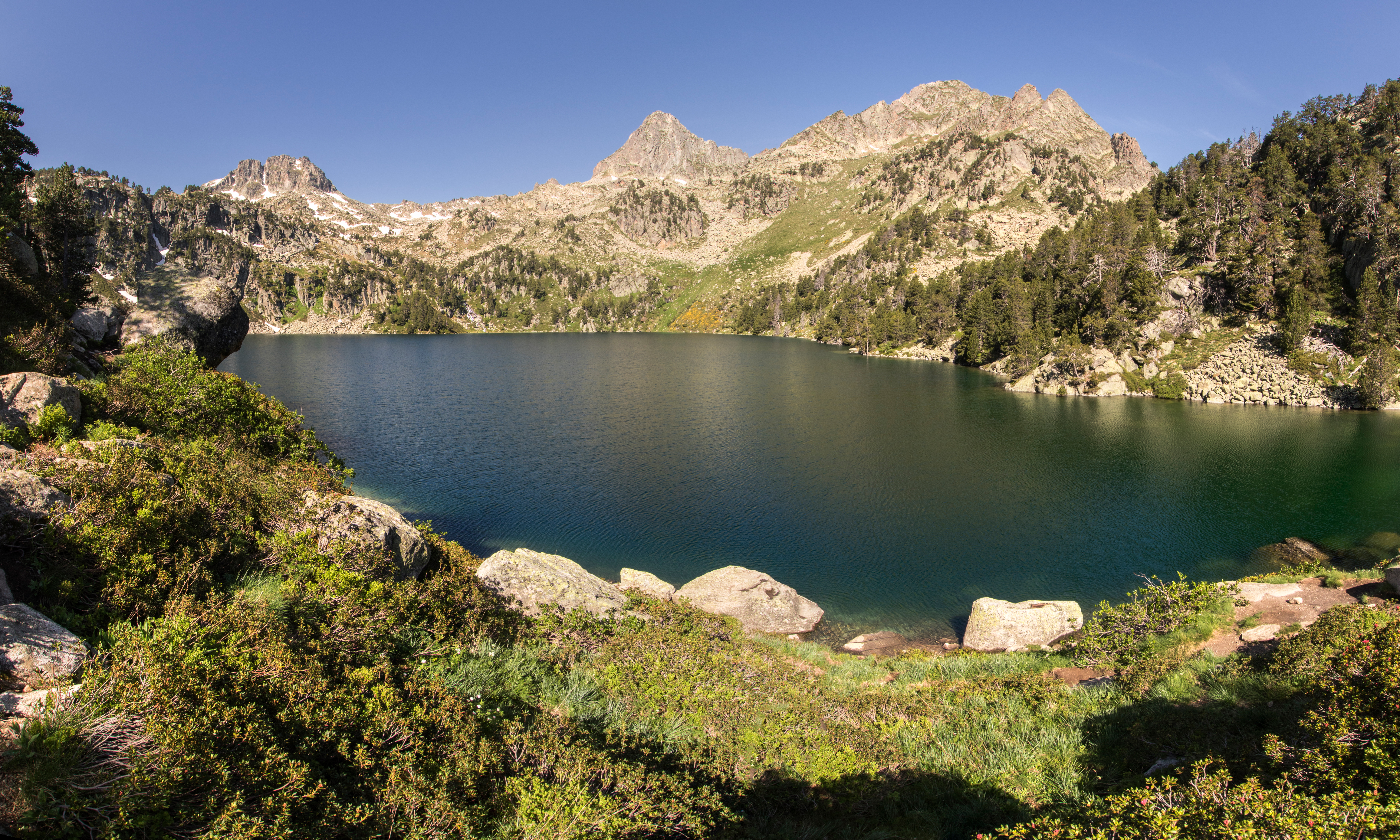 This is a photography of a Site of Community Importance in Spain with the ID: ES0000022. Natura2000 entry, EEA entry